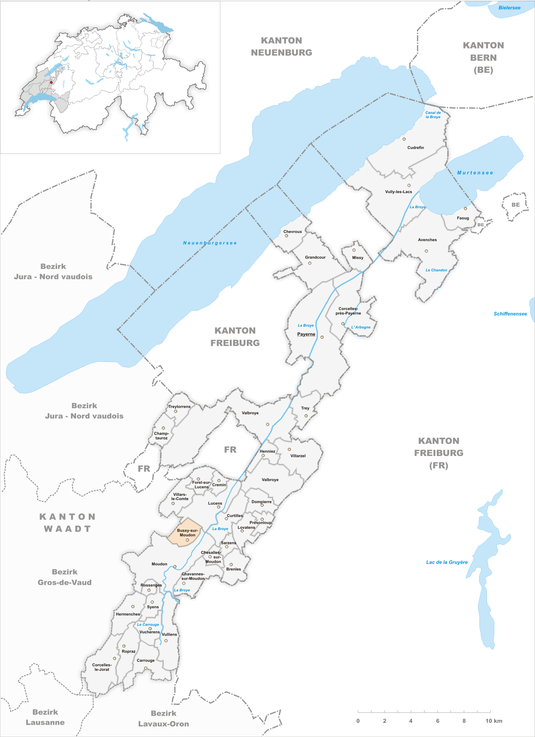 Municipality Bussy-sur-Moudon